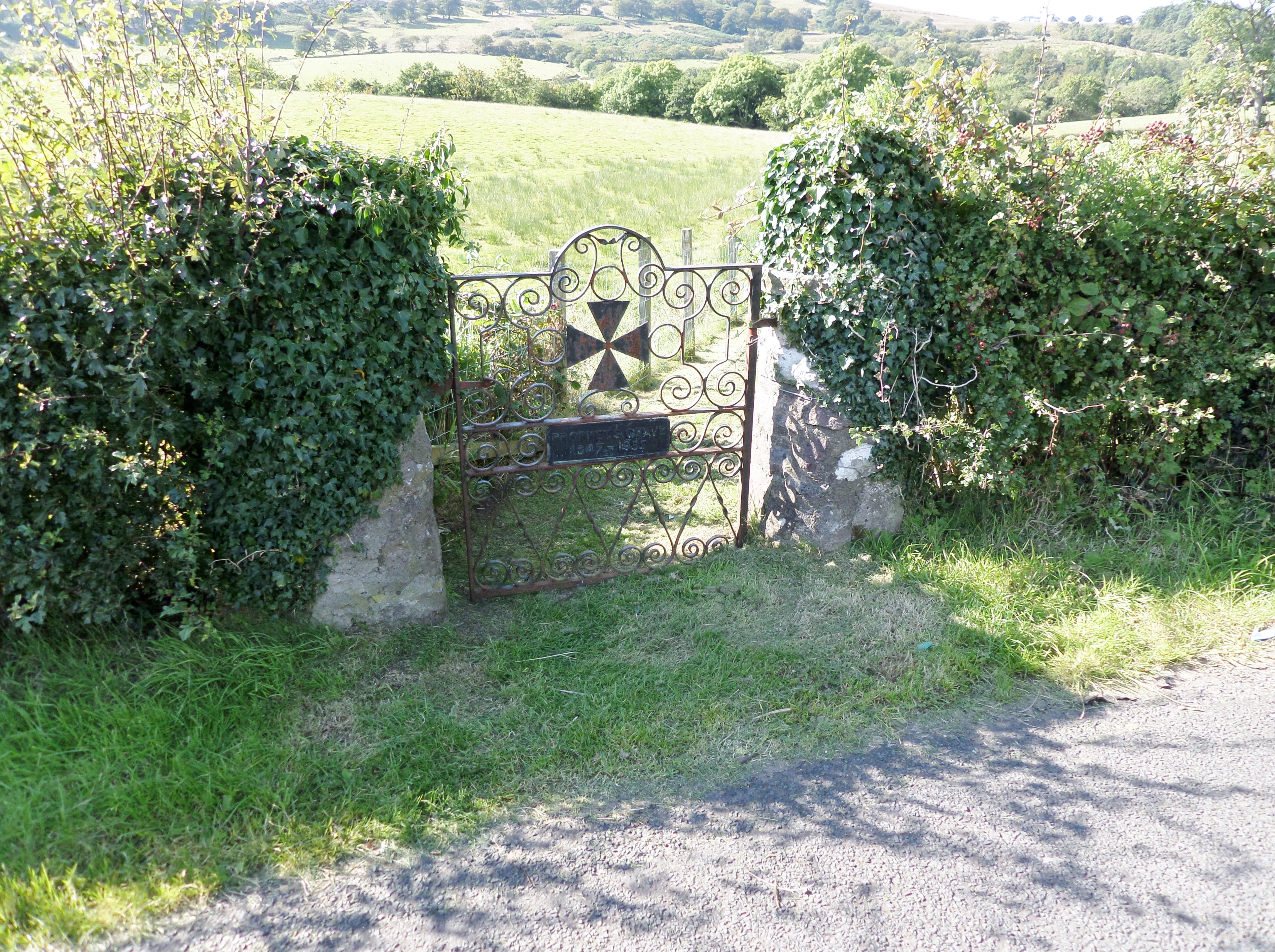 The entry gate to the path leading to William Smith 'The Prophet's Grave', Noddsdale, Brisbane Glen, Largs, Scotland.